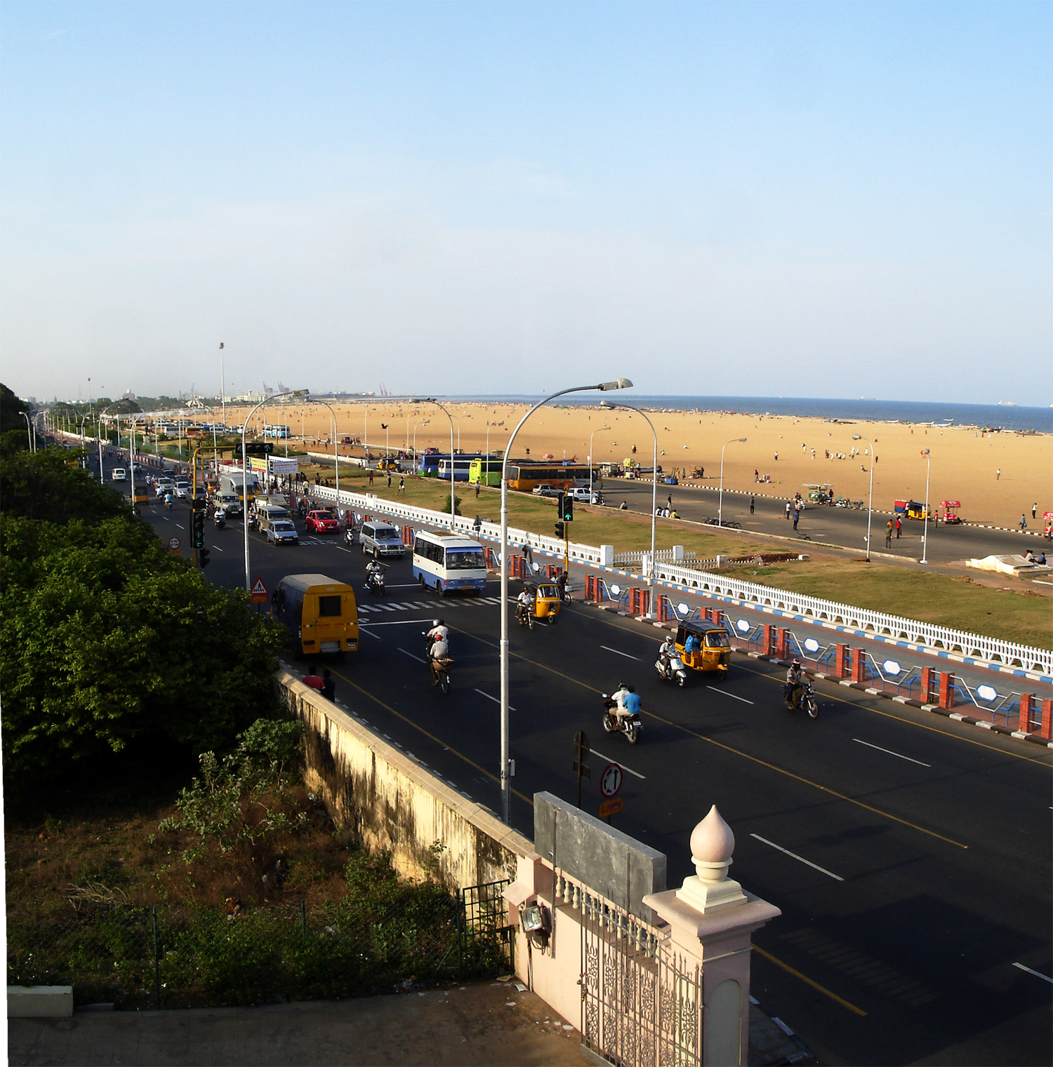 View of Kamarajar Salai that runs along the Marina beach, Chennai